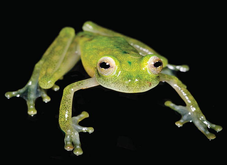 Hyalinobatrachium yaku in life. Adult male, paratype, QCAZ 55628.